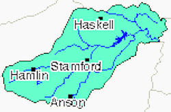 The watershed, or catchment area of Paint Creek, which shows the approximate watershed for Lake Stamford